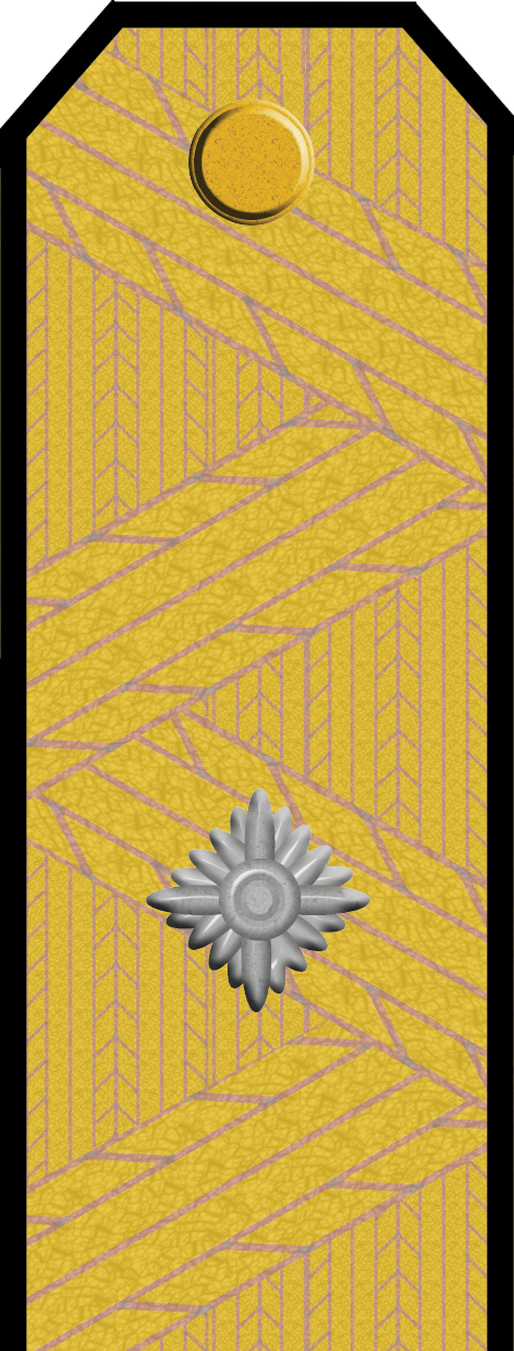 Bulgarian army Brigadier General rank insignia